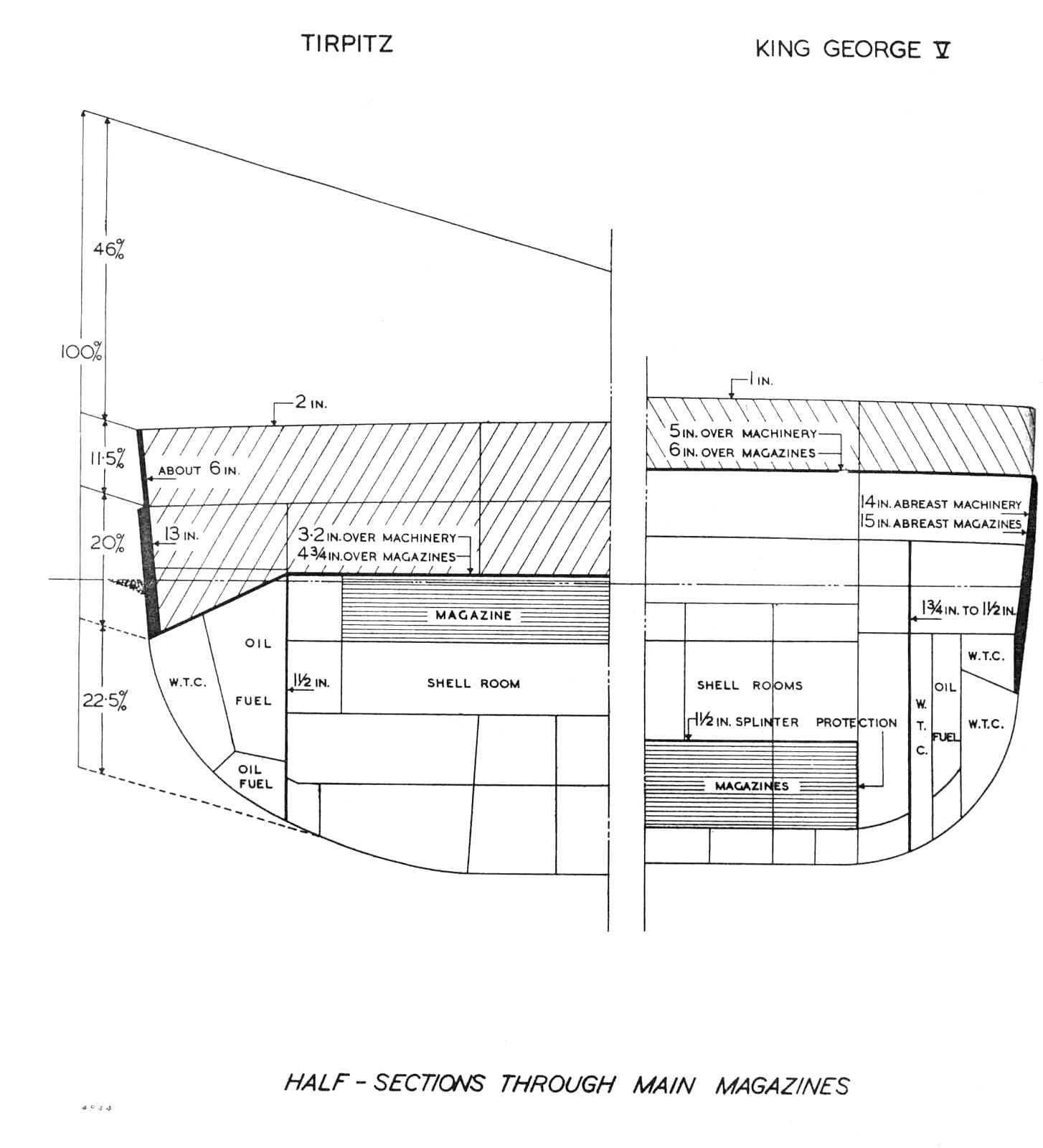 Cross sections of the battleships Tirpitz and HMS King George V, showing the arrangements of armour and underwater protection. The percentages beside the Tirpitz drawing illustrates the percentage of various parts of the ship exposed to enemy fire at 22000 yds range. The area shown by the diagonal lines, shows the parts of the ship which are not protected by the armoured citadel. The details of Tirpitz seem correct, but should be used with caution as the Royal Navy created the drawing from wartime intelligence sources.